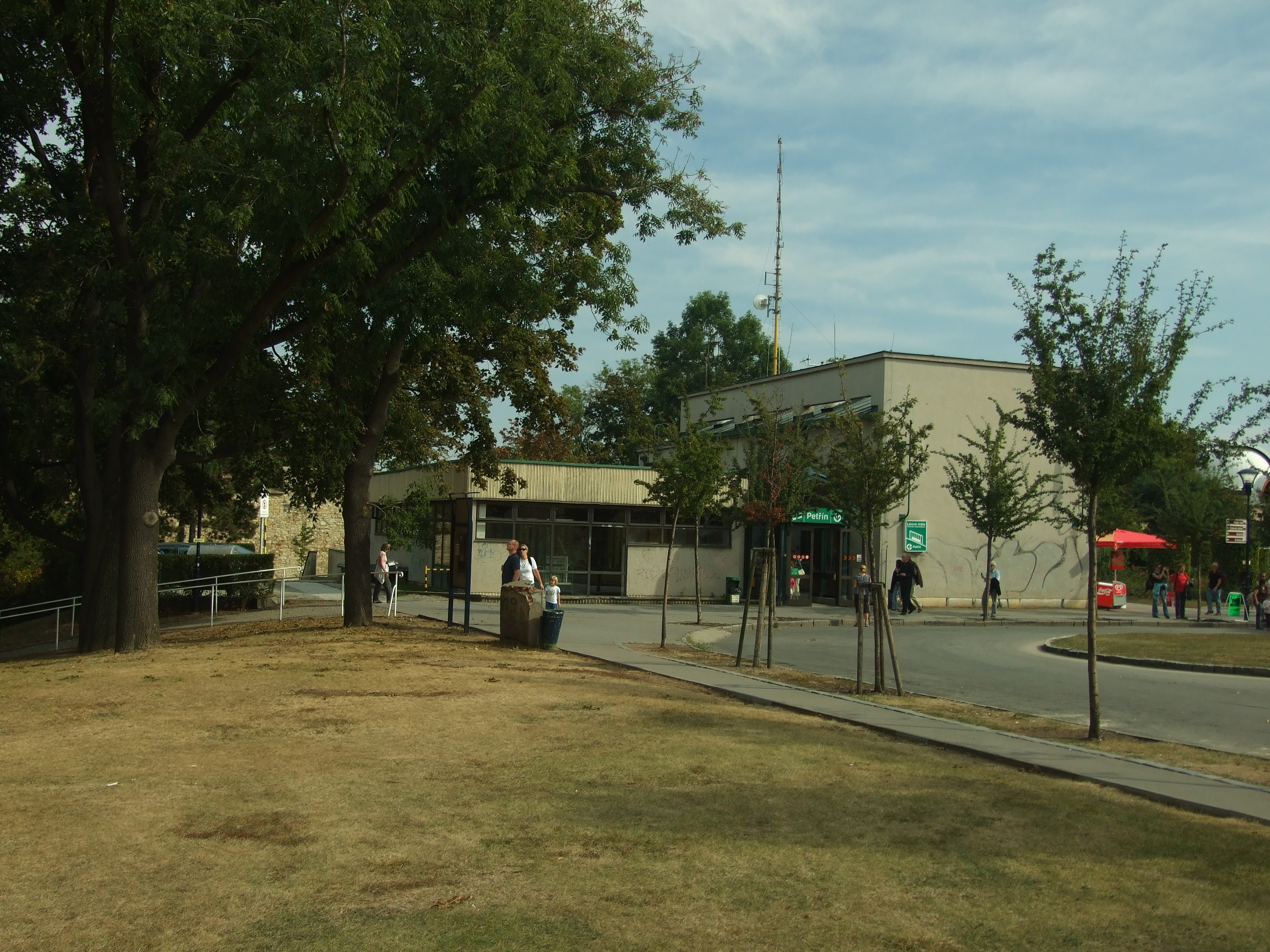 Petřín funicular near Petřín station in Prague, CZhelp